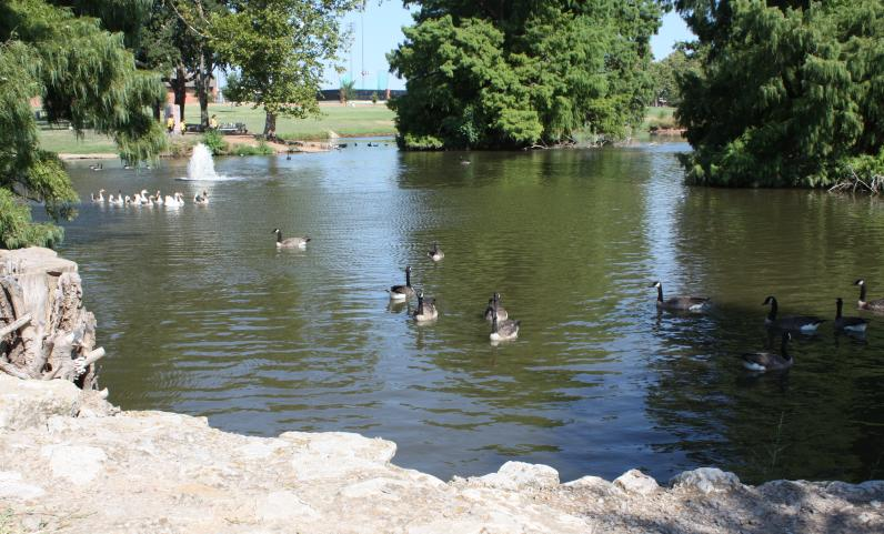 Brandt Park, also known as "The Duck Pond" in Norman, OK.